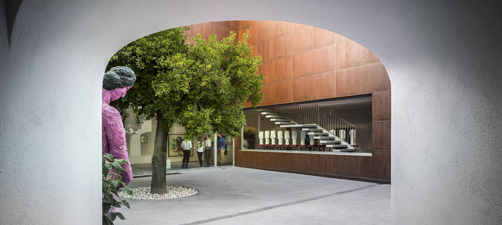 Inner yard of the Museum Jorge Rando